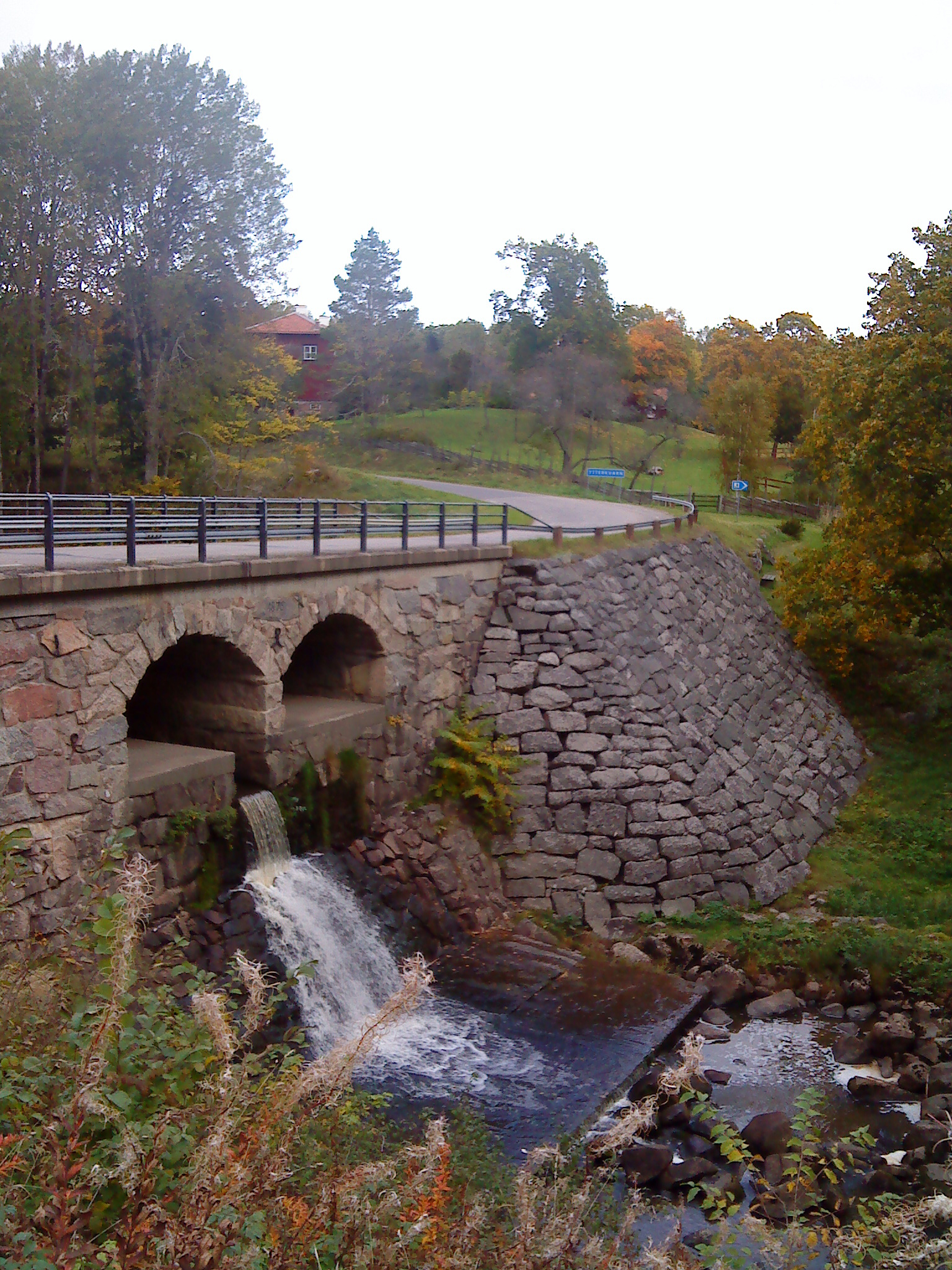 The Ytterkvarn bridge in Skattmansöådalen, municipality of Enköping, Uppland, Sweden